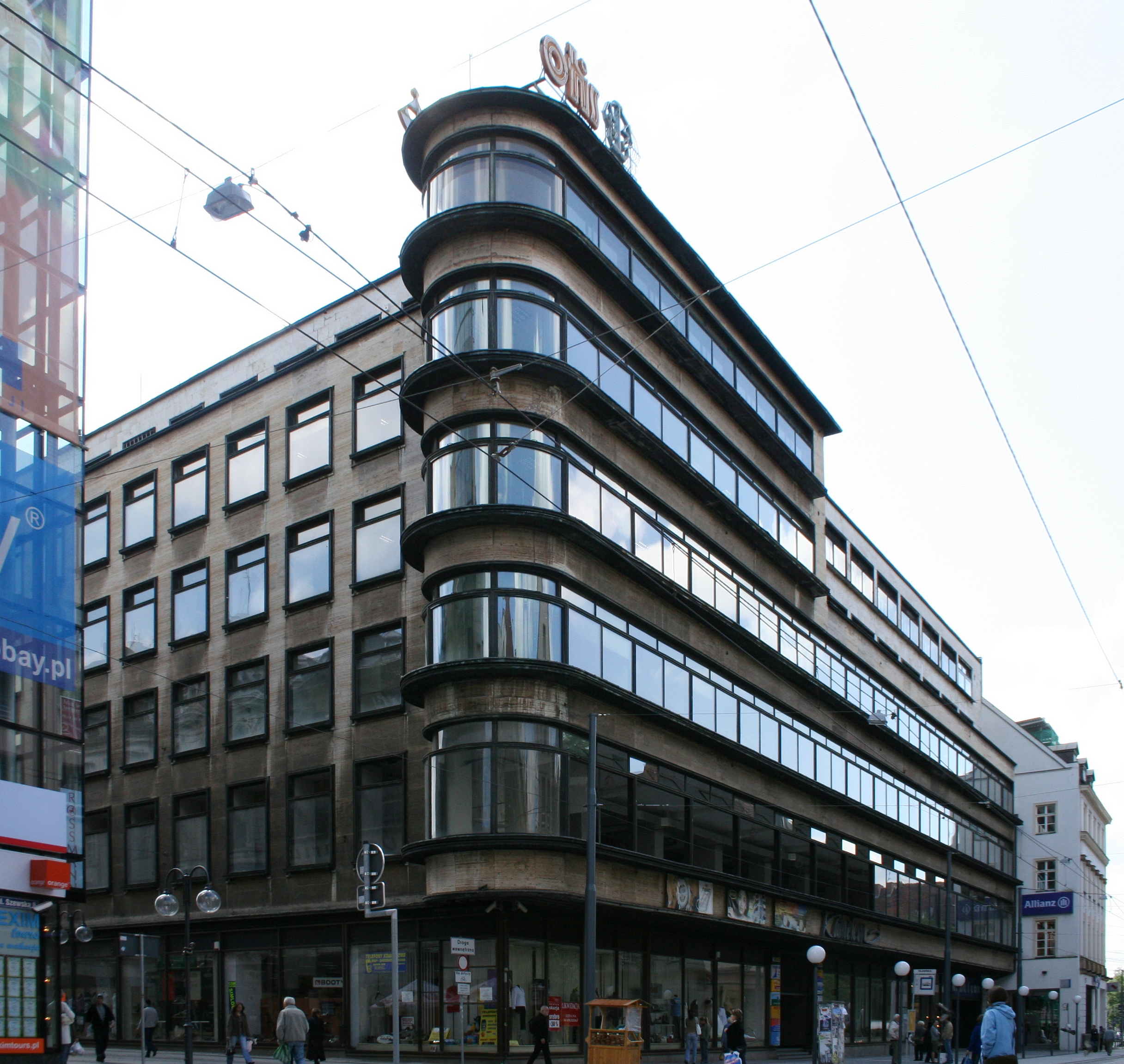 Rudolf Petersdorff store by Erich Mendelsohn in Wrocław, Poland.